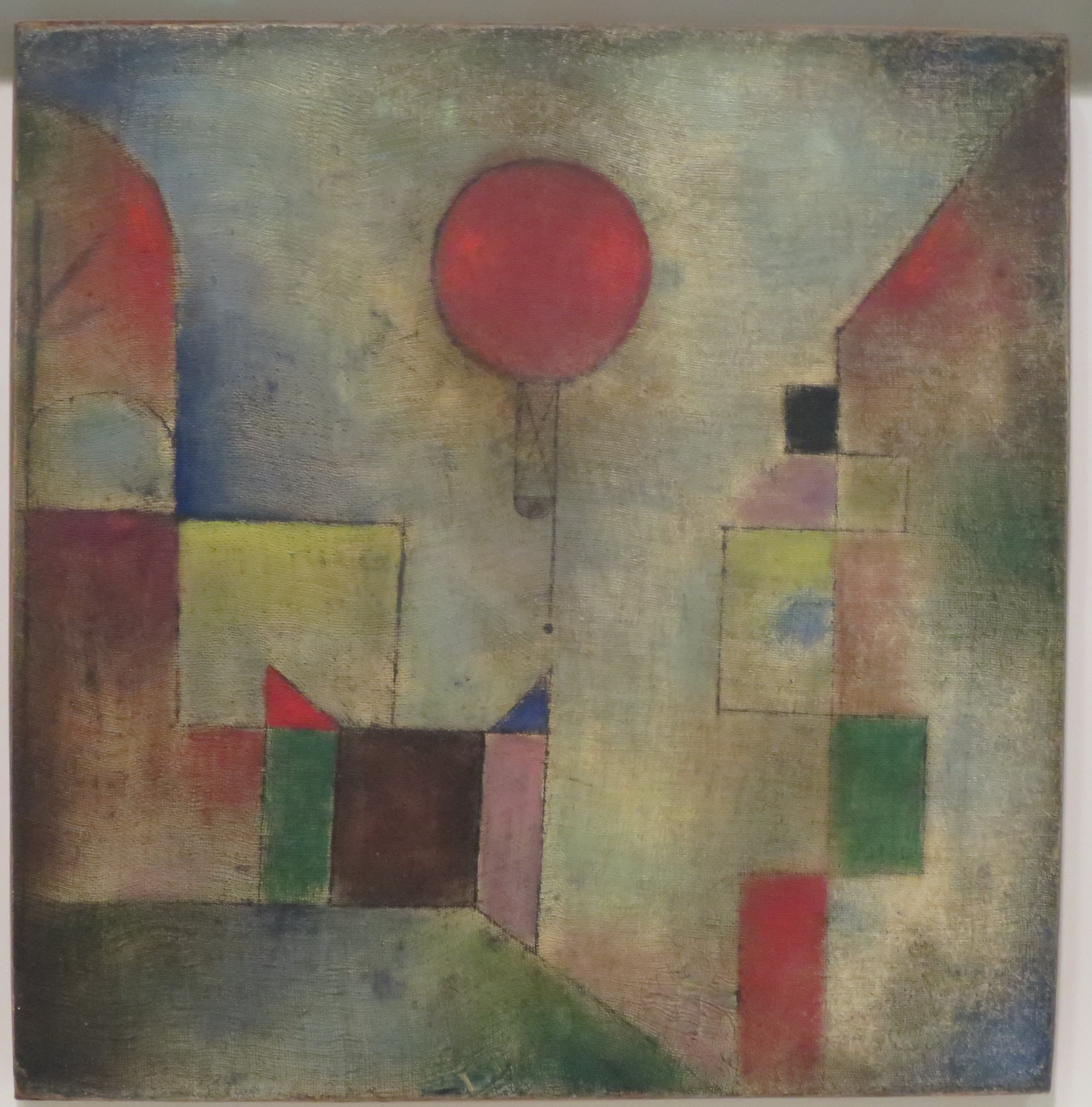 Paul Klee, Red Balloon (Roter Ballon), 1922. Oil (and oil transfer drawing?) on chalk-primed gauze, mounted on board, 12 1/2 × 12 1/4 inches (31.7 × 31.1 cm). Solomon R. Guggenheim Museum, New York